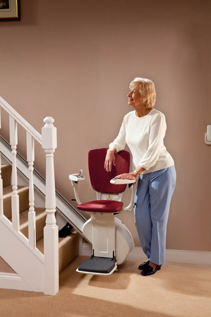 Treppenlift